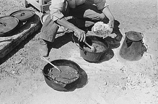 Cowboy dishing up chili at noonday dinner. Cattle ranch near Marfa, Texas